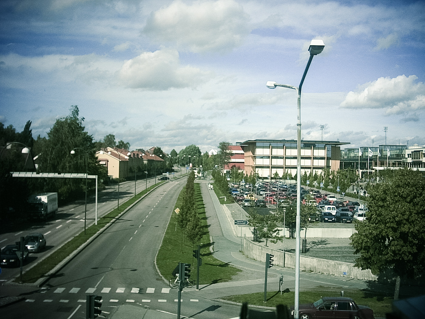 Library of the University College Mälardalen in Västerås, Sweden.